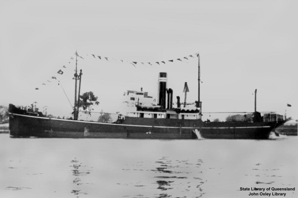 Australasian United Steam Navigation Co 998 GRT cargo ship Baralaba in 1939. Built in 1921 at Stettin, Germany as Nürnburg. Sold to Hong Kong owners in 1949. (From description supplied with photograph.)